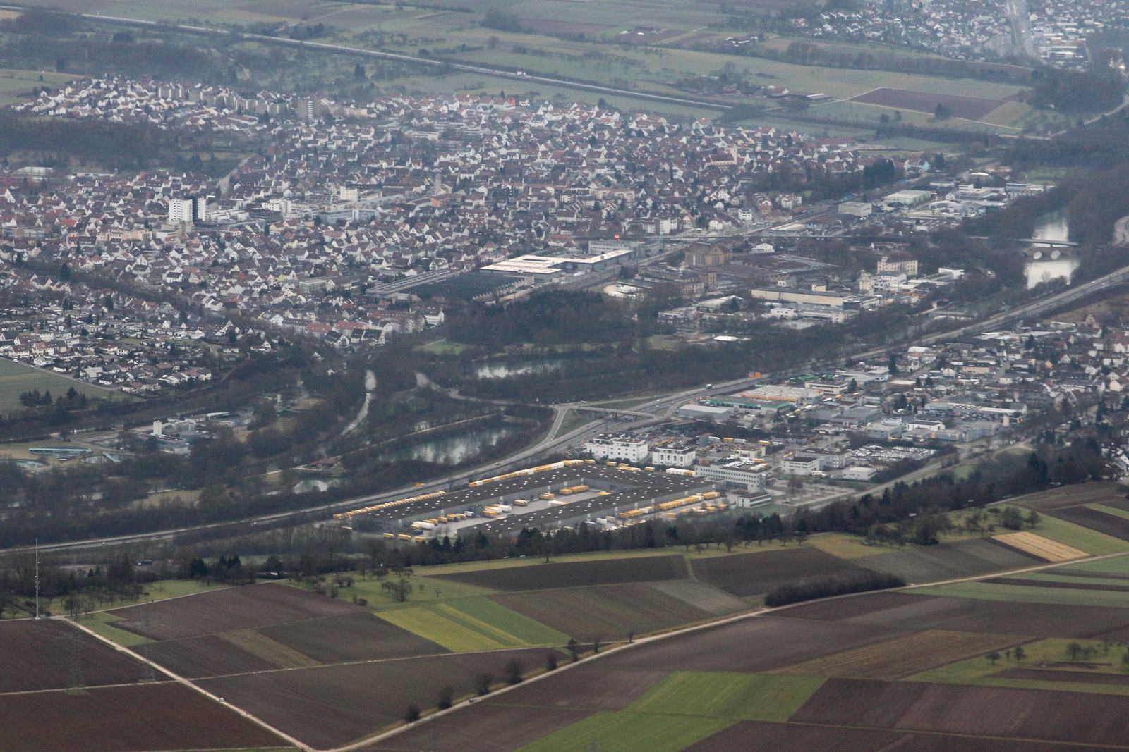 Aerial picture (roughly taken towards South) of the village of Wendlingen, Baden-Württemberg, southern Germany, facing the Koengen logistics centre of DHL that is located alongside the federal road 313. At the upper edge of the picture, the A 8 highway is visible.